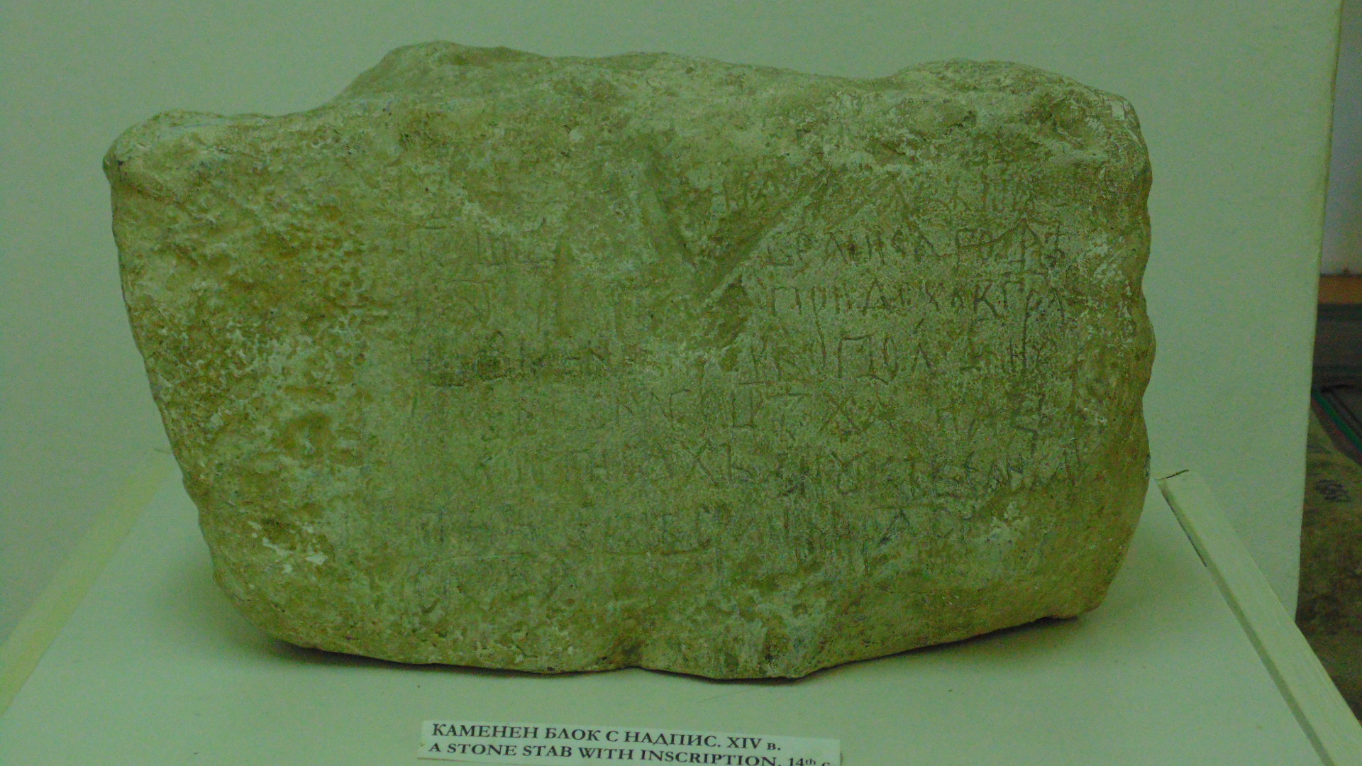 Stone script